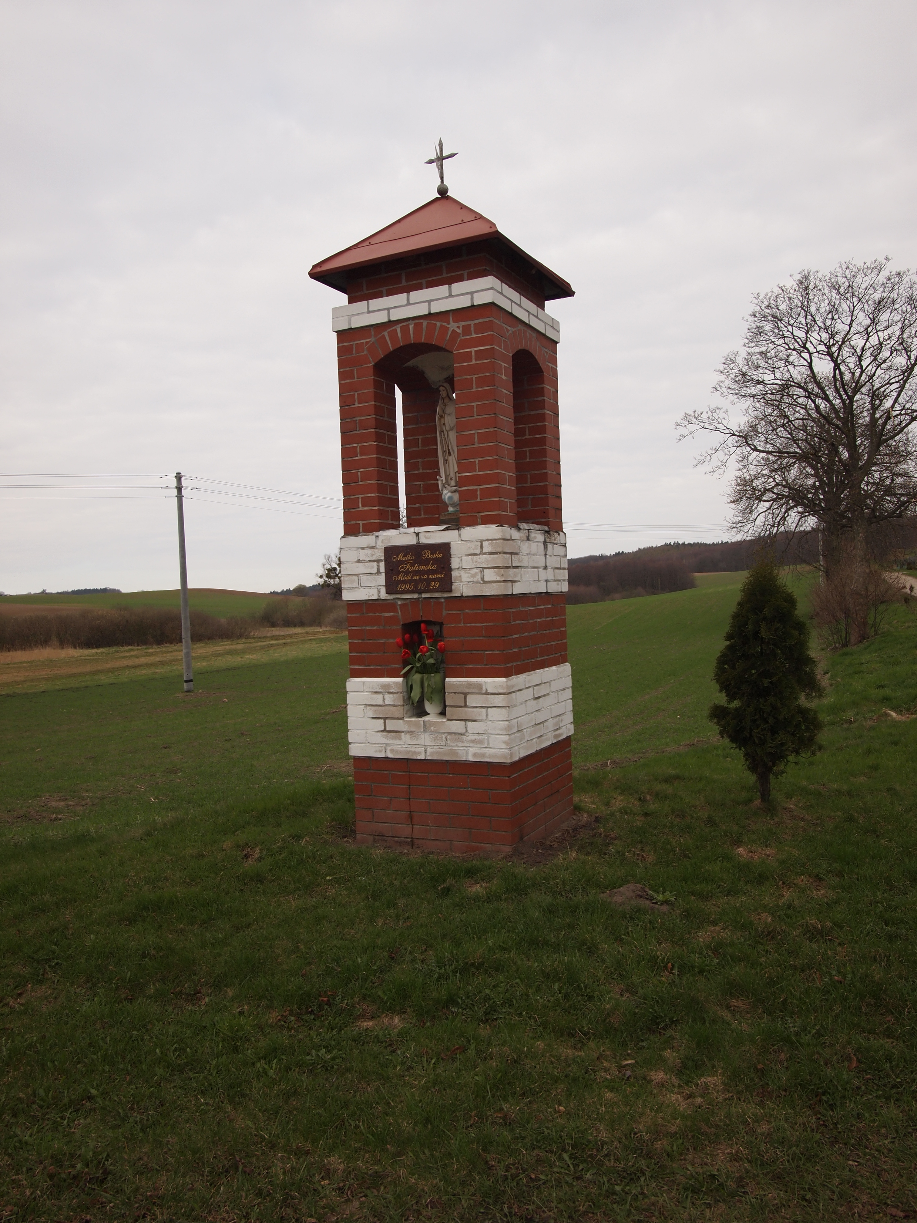 Chapel in Szczerbięcin, Pomeranian